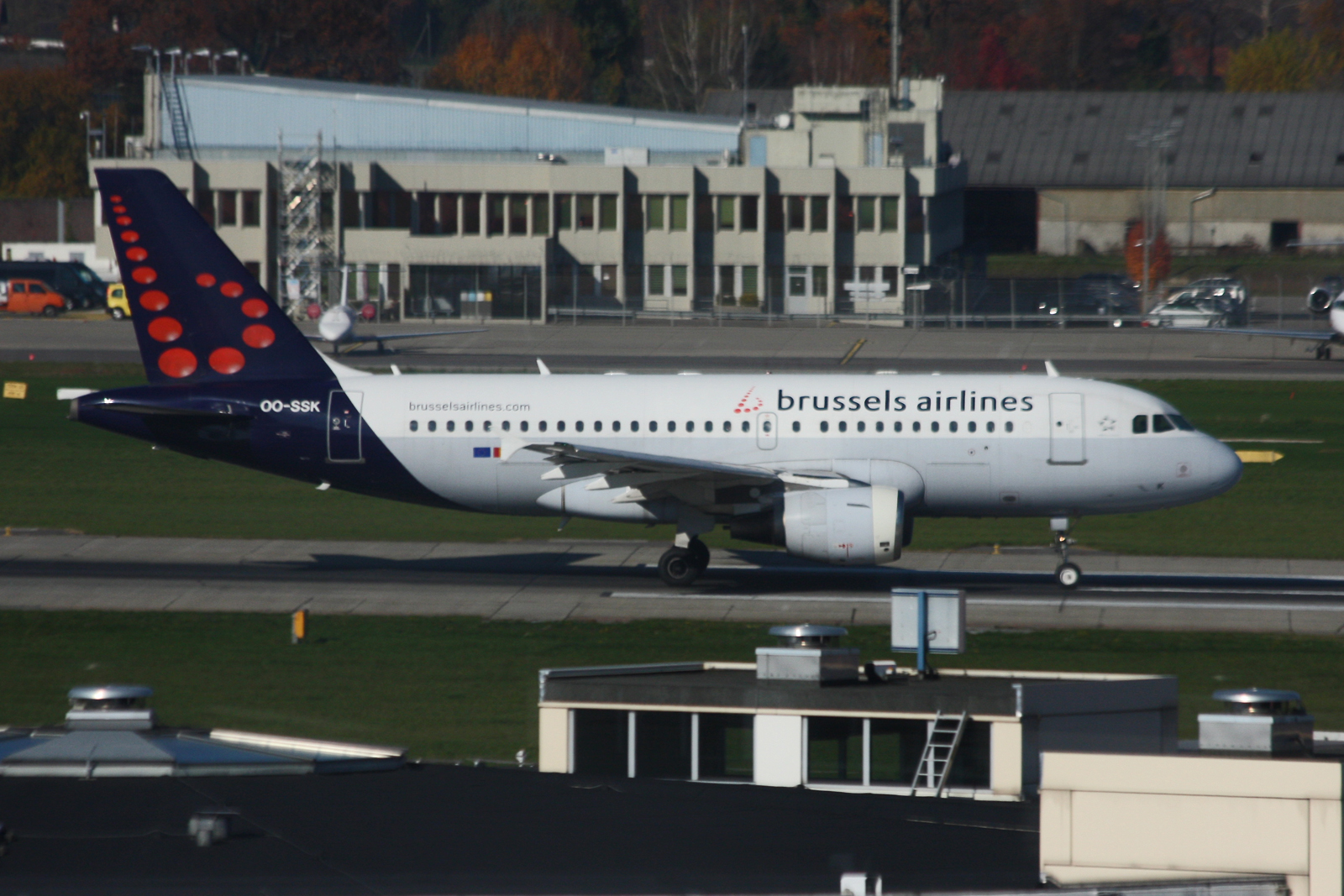 Geneva - International (Cointrin) (GVA / LSGG) Switzerland 11.2015